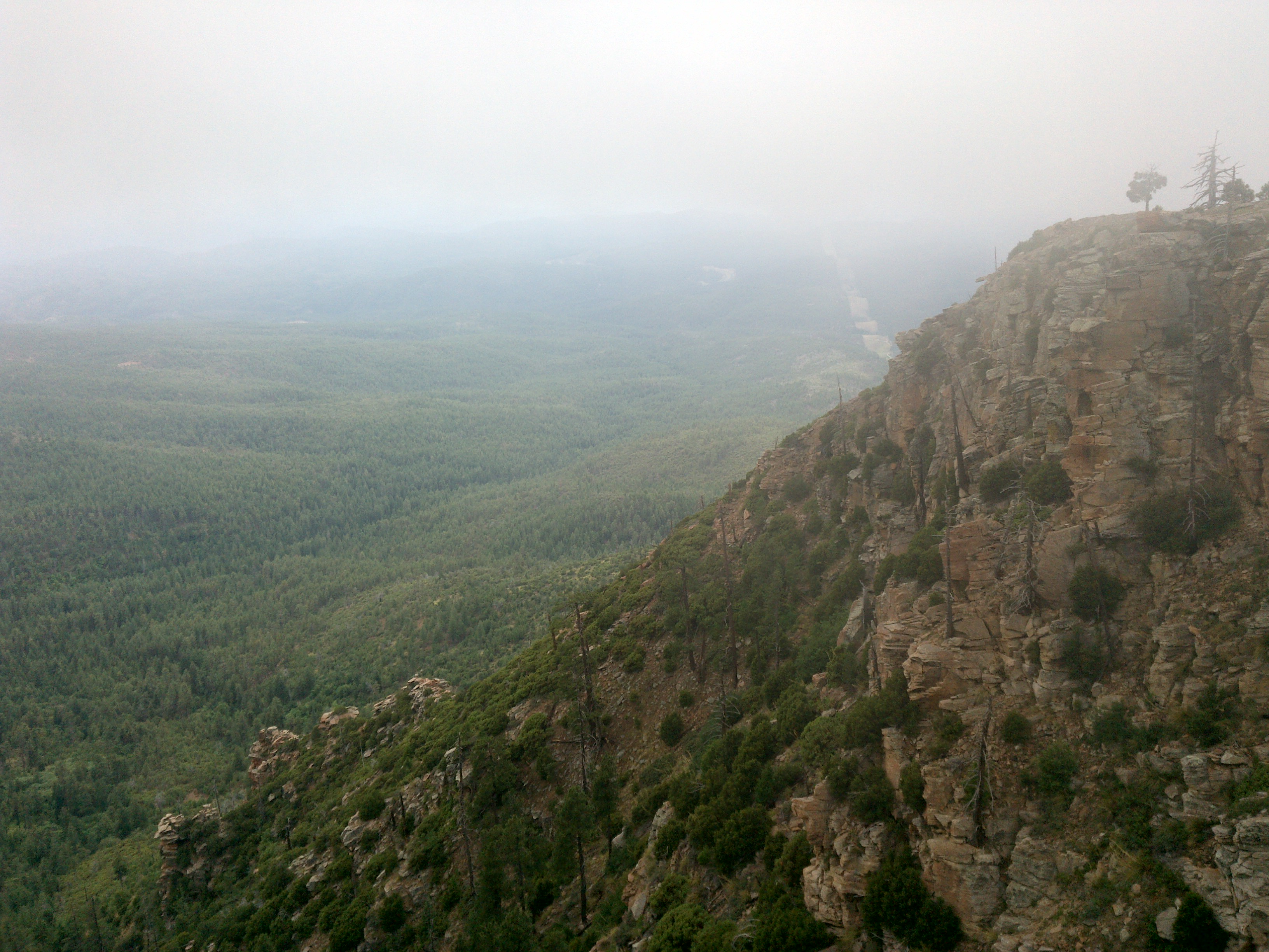 Mogollon Rim, Payson, AZ Coconino County